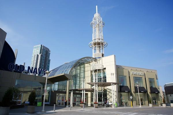 Scarborough Town Centre, Forever 21